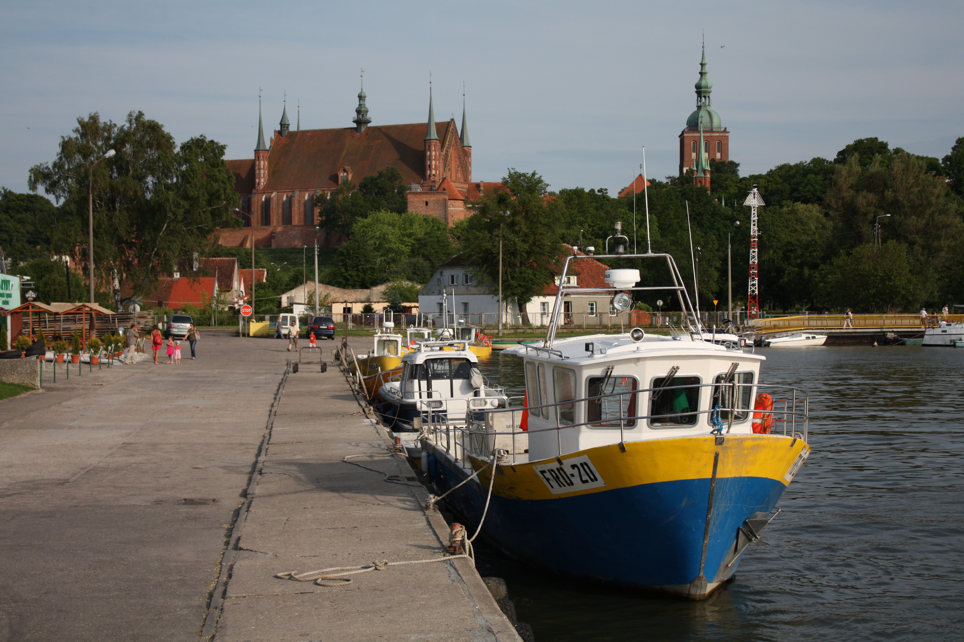 Frombork